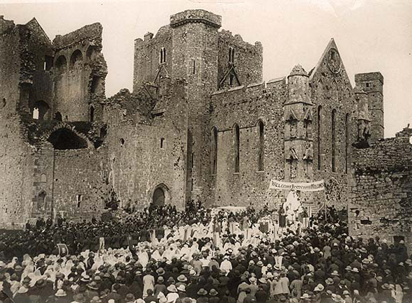 NLI Ref.: HOG196 Note on back of photo: "Yesterday was an historical day for the city of Cashel. Corpus Christi procession took place in the city of Cashel and through the city of Cashel where Benediction was given outside the Church door, on the market and in the square and right up to the rock... This is the first time for 300 years Benediction was given to the people. I am told that only once before was Benediction given inside the gates of the Castle on the rock and then only by stealth."